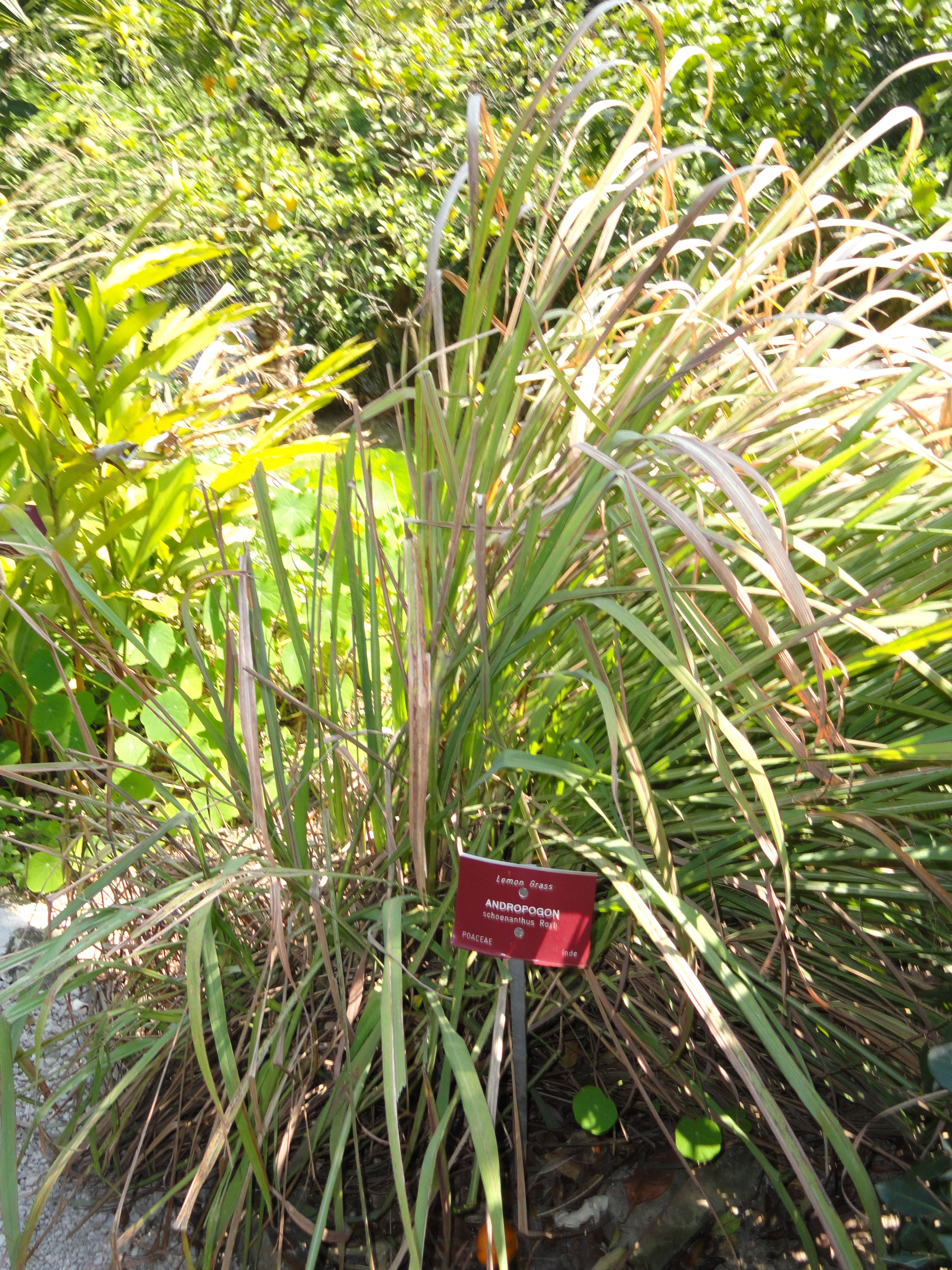 Andropogon schoenanthus specimen in the Jardin botanique du Val Rahmeh, Menton, Alpes-Maritimes, France.